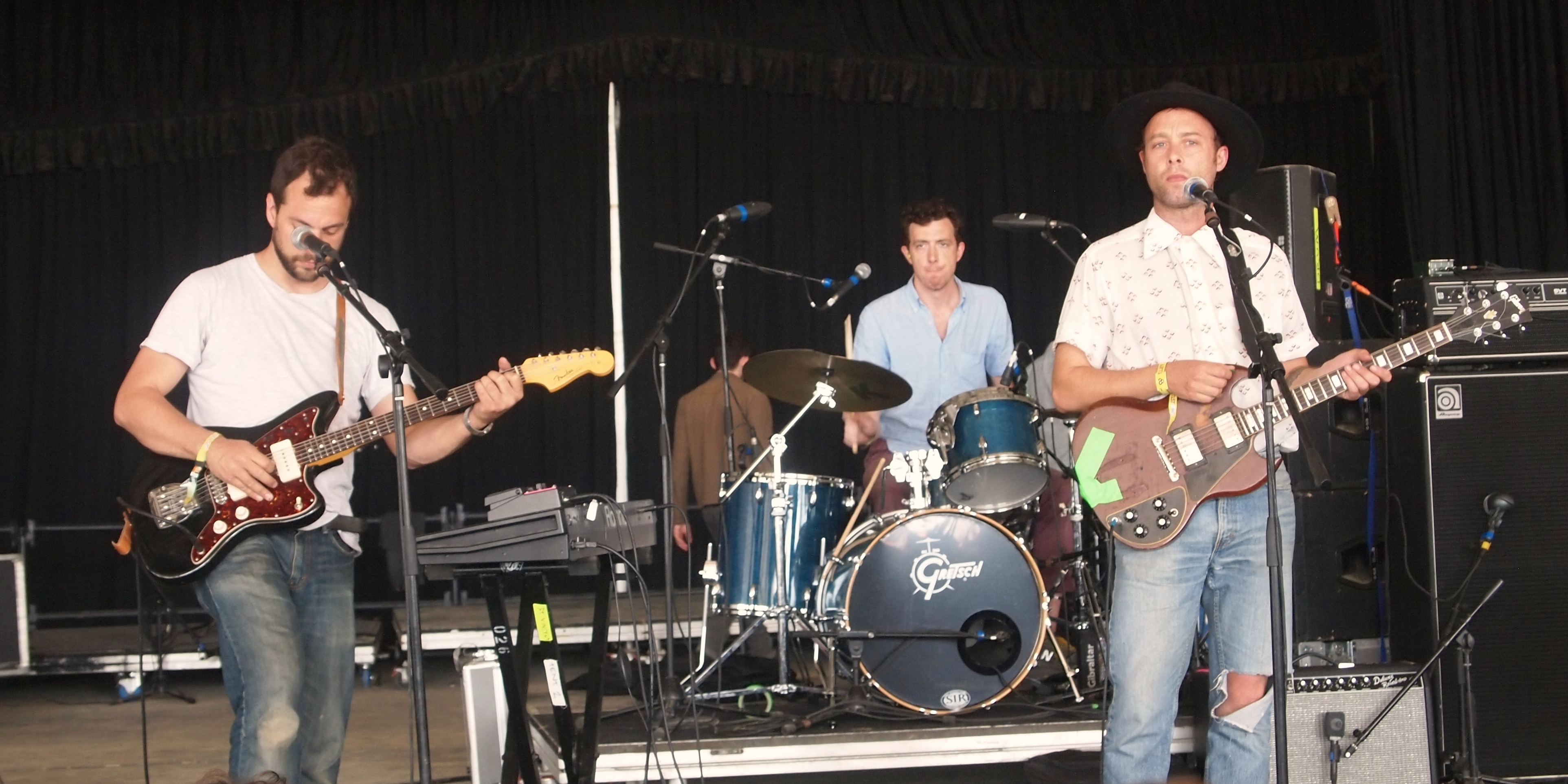 Luke Temple, Peter Hale, Michael Bloch warm up for their performance Sunday, June 10 at Bonnaroo.